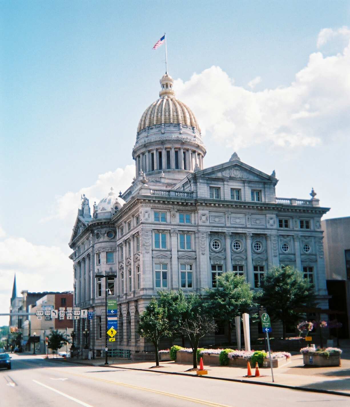 Westmoreland County Courthouse, 2 North Main Street (corner of West Pittsburgh Street), Greensburg, Pennsylvania. Built: 1906-1908. Architect: William Kauffman.